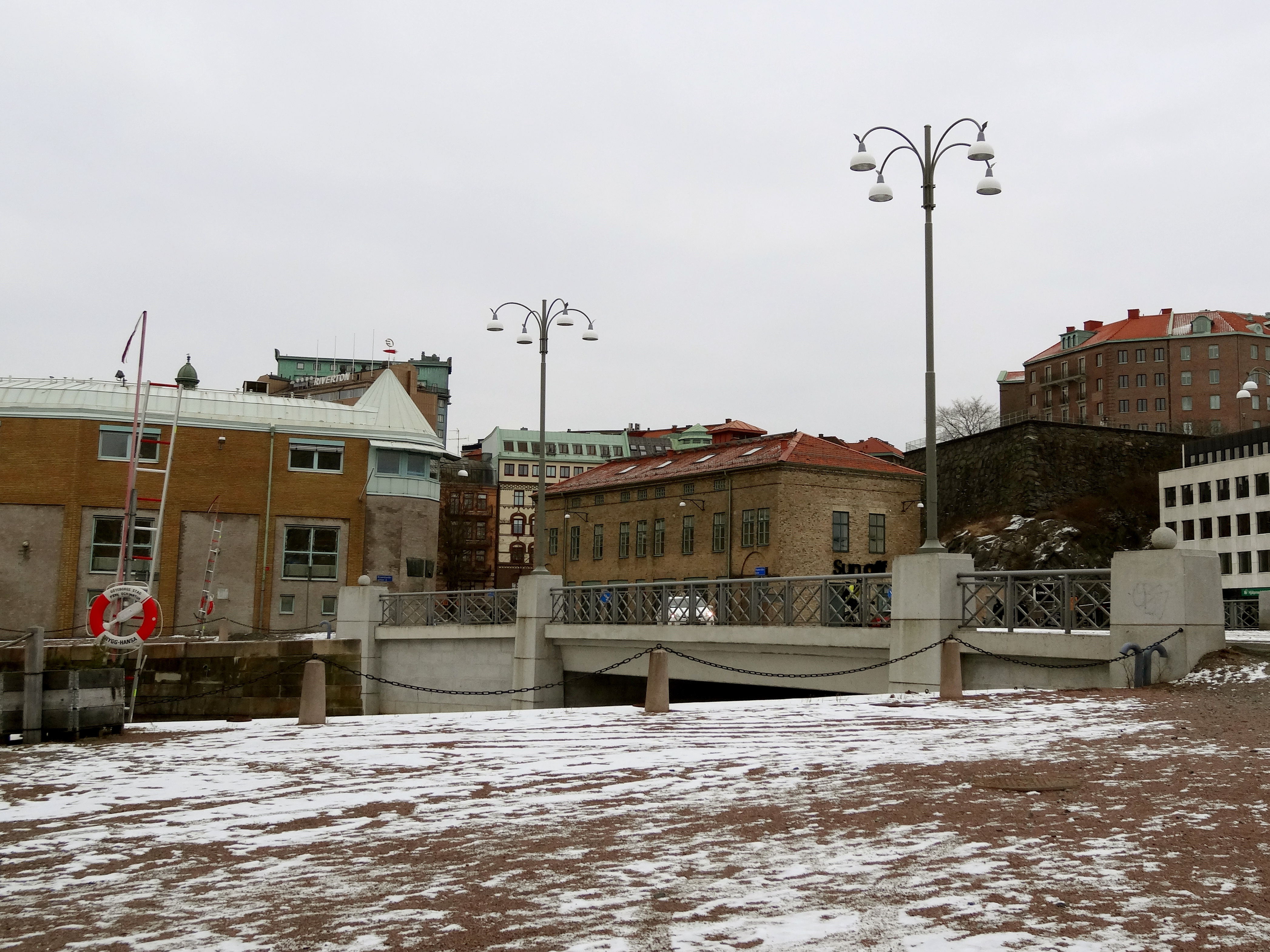 The Pustervik Bridge in Göteborg, Sweden.